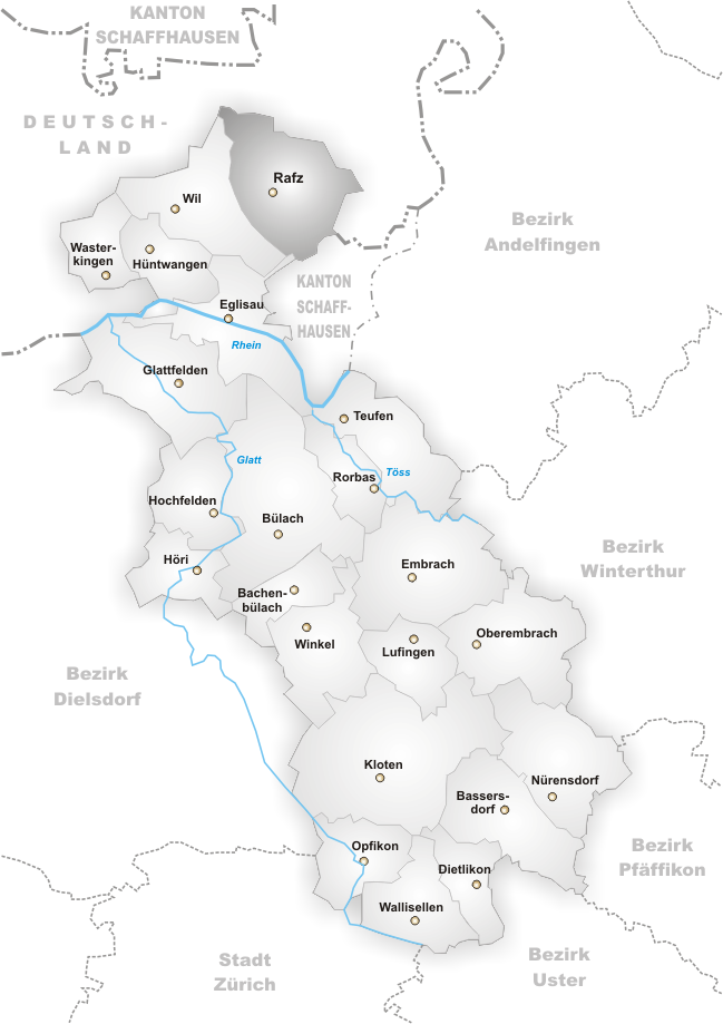 Municipality Rafz